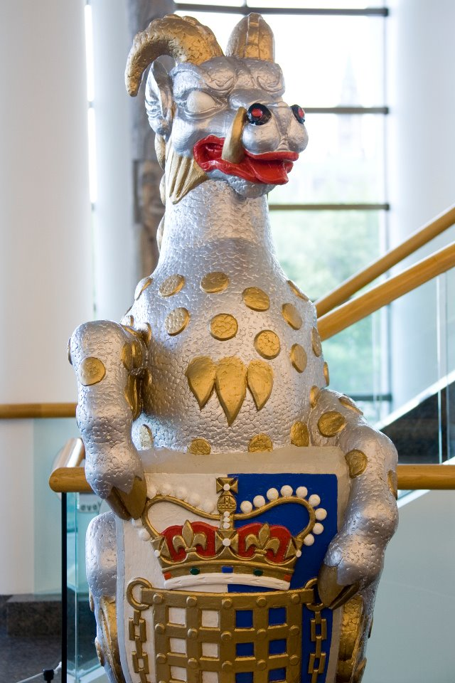 The yale has the body of an antelope, a lion’s tail and a head with swiveling horns and boar’s tusks.